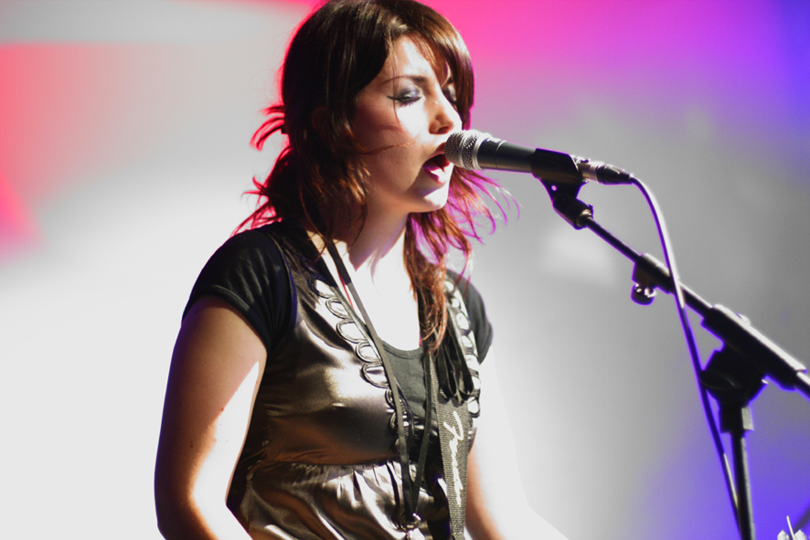 Laura-Mary Carter of english rockband blood red shoes performing.